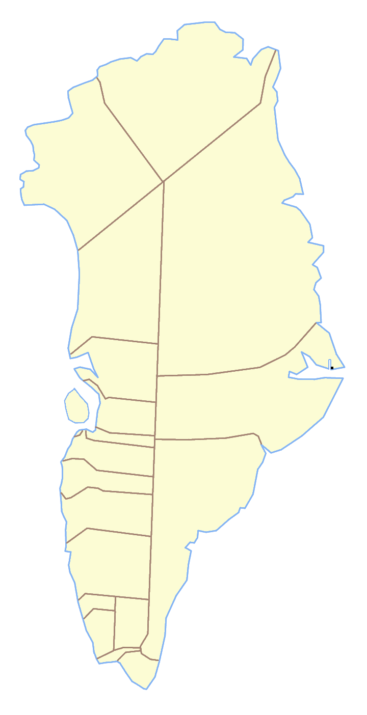 Map showing the village Itterajivit in Greenland